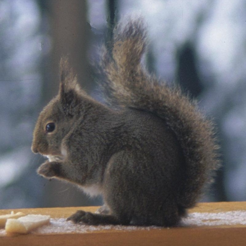 Japanese Squirrel (Sciurus lis) in Yatsugatake